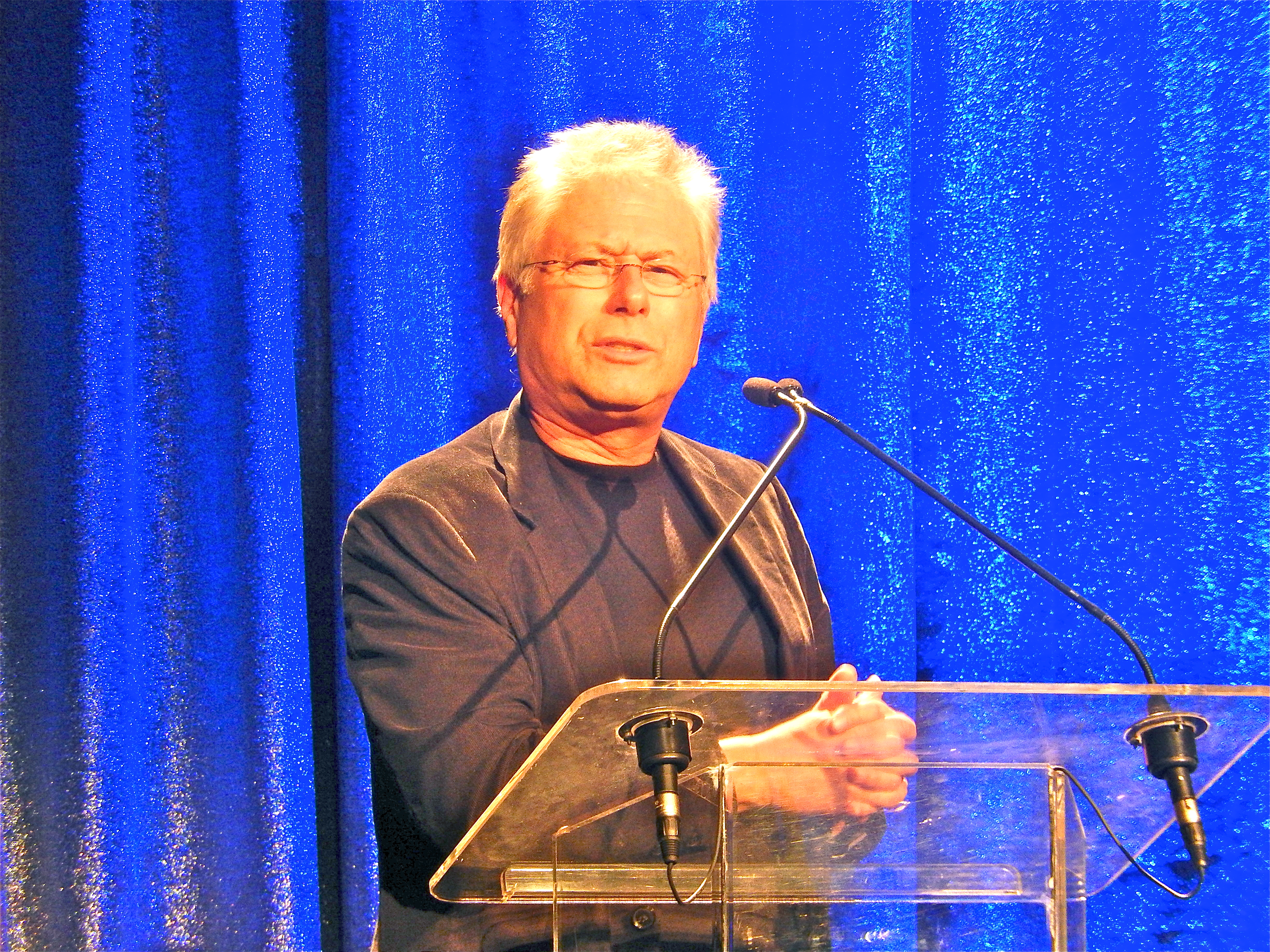 Alan Menken Dramatists Guild Benefit. 'Great Writers Thank Their Lucky Stars'. October 21, 2013. Edison Ballroom. NYC.